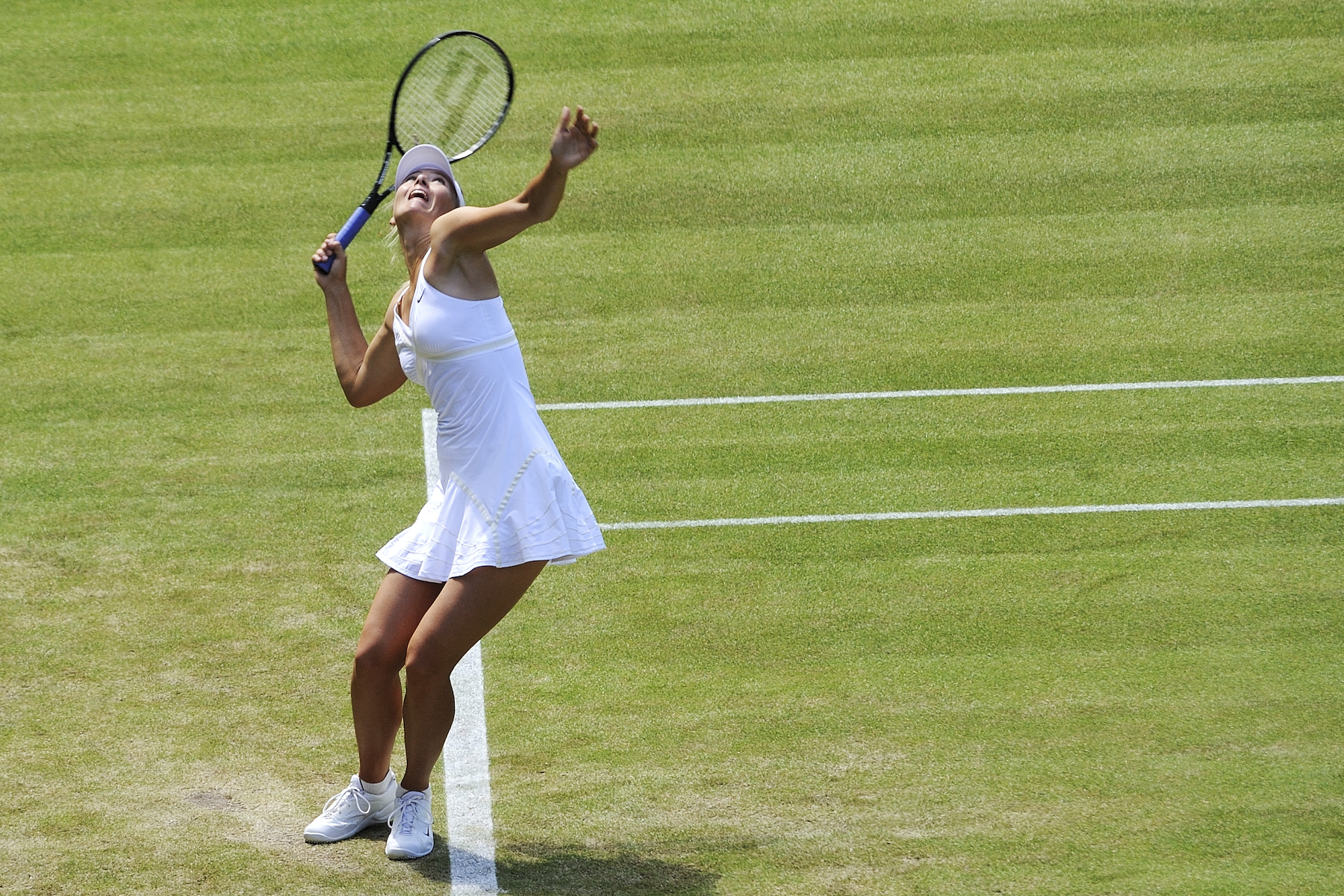 Maria Sharapova against Gisela Dulko in the 2009 Wimbledon Championships second round